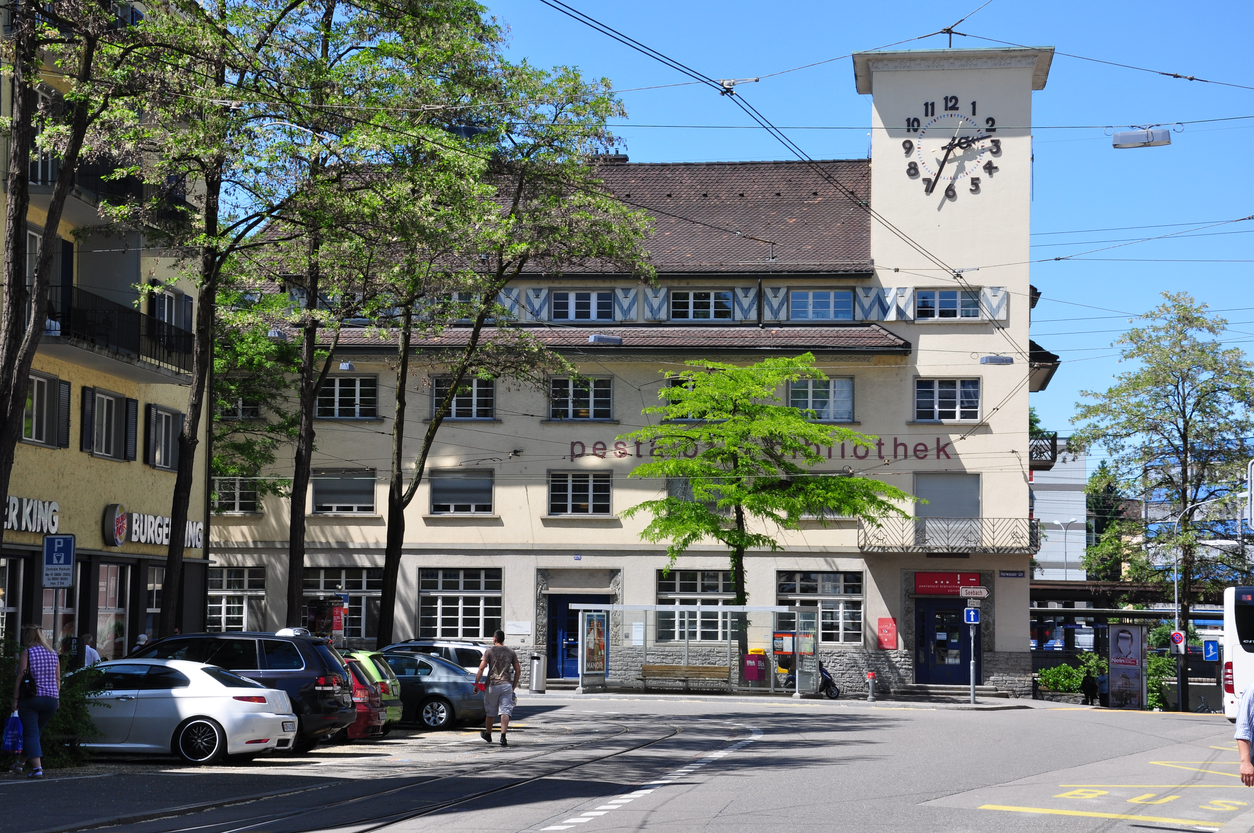 Pestalozzi Bibliothek at Zürich-Oerlikon train station (Switzerland) as seen from Ohmstrasse